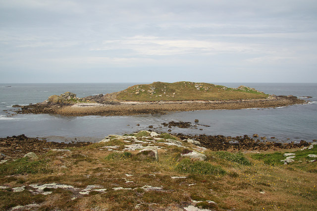 Gweal